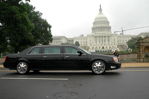 A Washington, D.C., policeman salutes the Cadillac limousine carrying former first lady Nancy Reagan as it passes in front of the U.S. Capitol on June 11, 2004, enroute to the Washington National Cathedral.